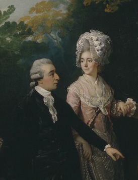 Charles Layard and his fiancee Elizabeth Ward.